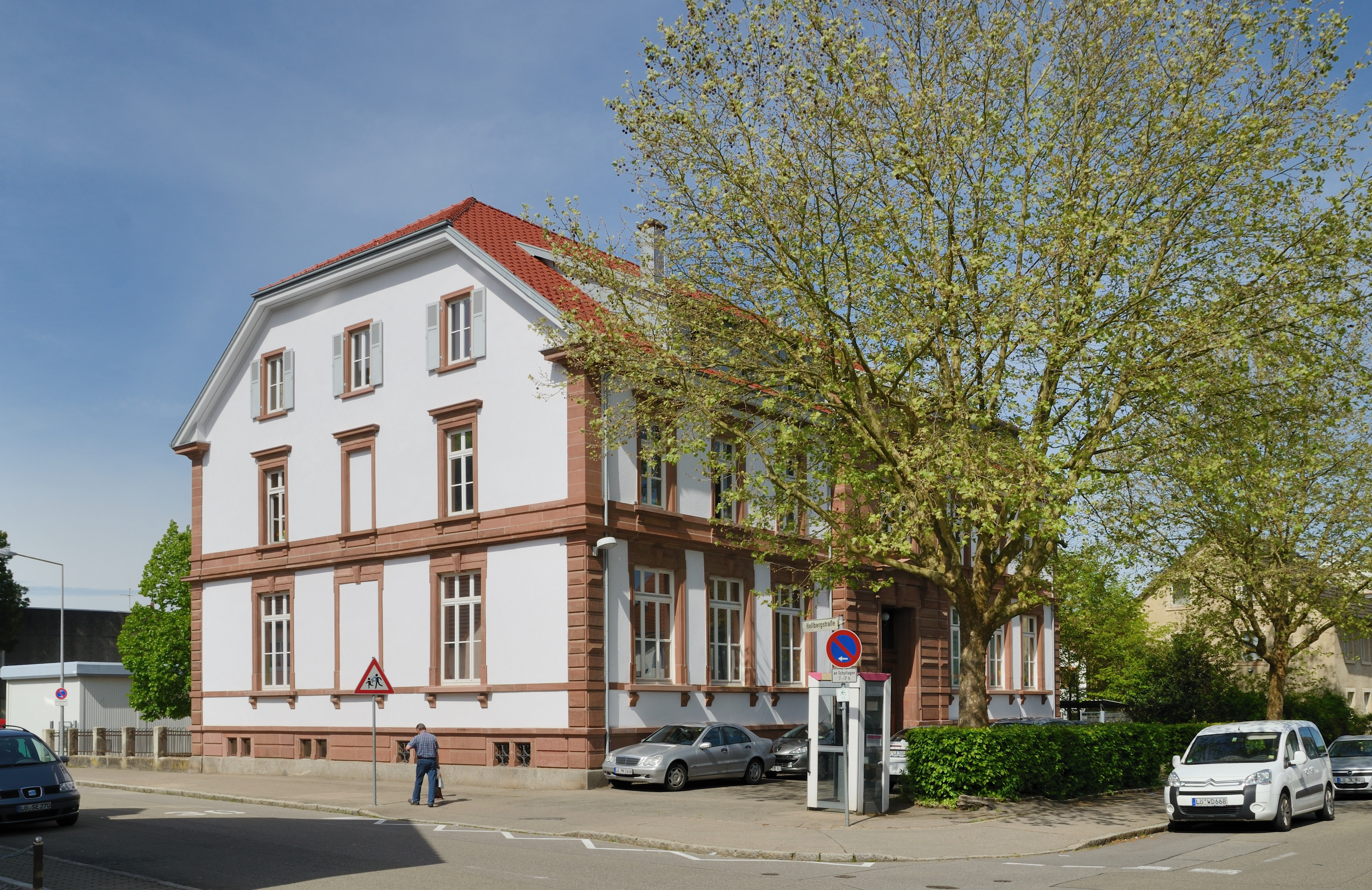 Lörrach-Brombach: School "Hellberg"